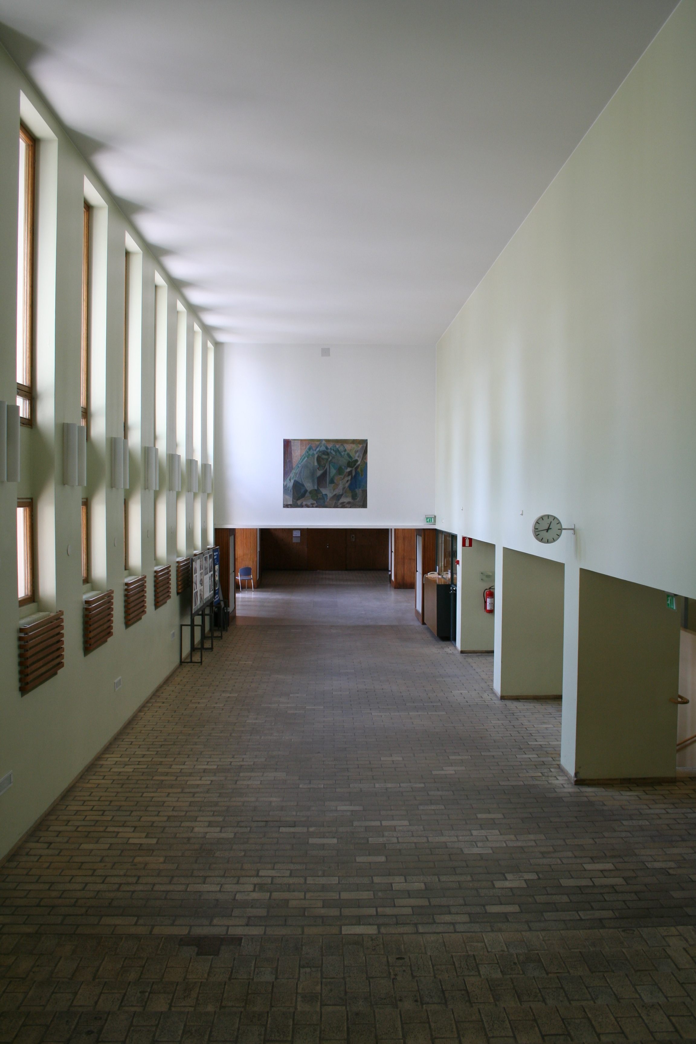 Lobby of the Metsätalo building in Helsinki.